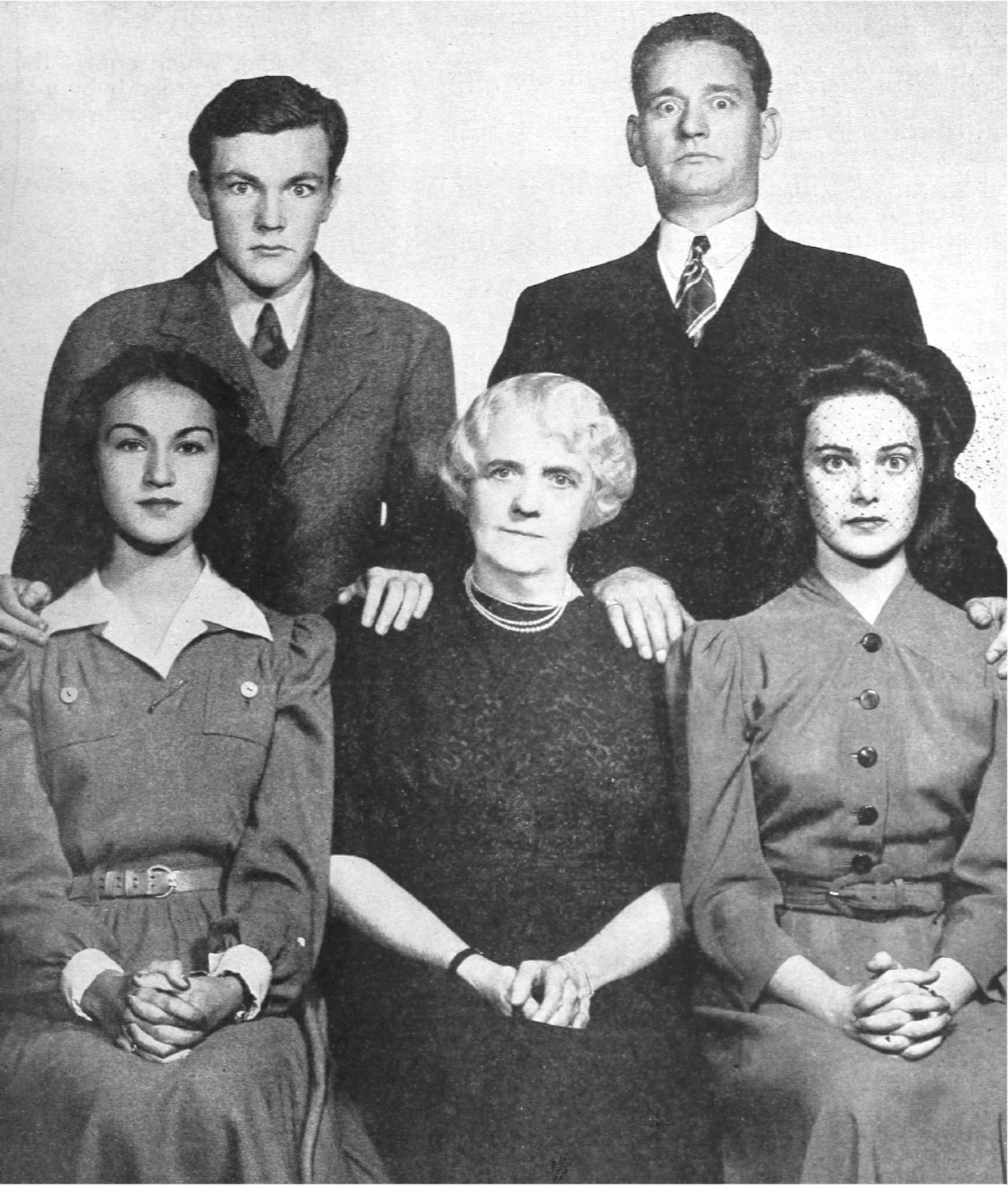 The O'Neill family from the radio program The O'Neills in January 1941. Seated from left: Janice Gilbert (Janice), Kate McComb (Mother O'Neill), Claire Neisen (Peggy). Standing from left: Jimmy Donnelly (Eddie) and James Tansey (Danny) A search for renewal was done in publications for the years 1968 and 1969. There were no listings for the title Radio Varieties. There's no evidence of renewal for the magazine.